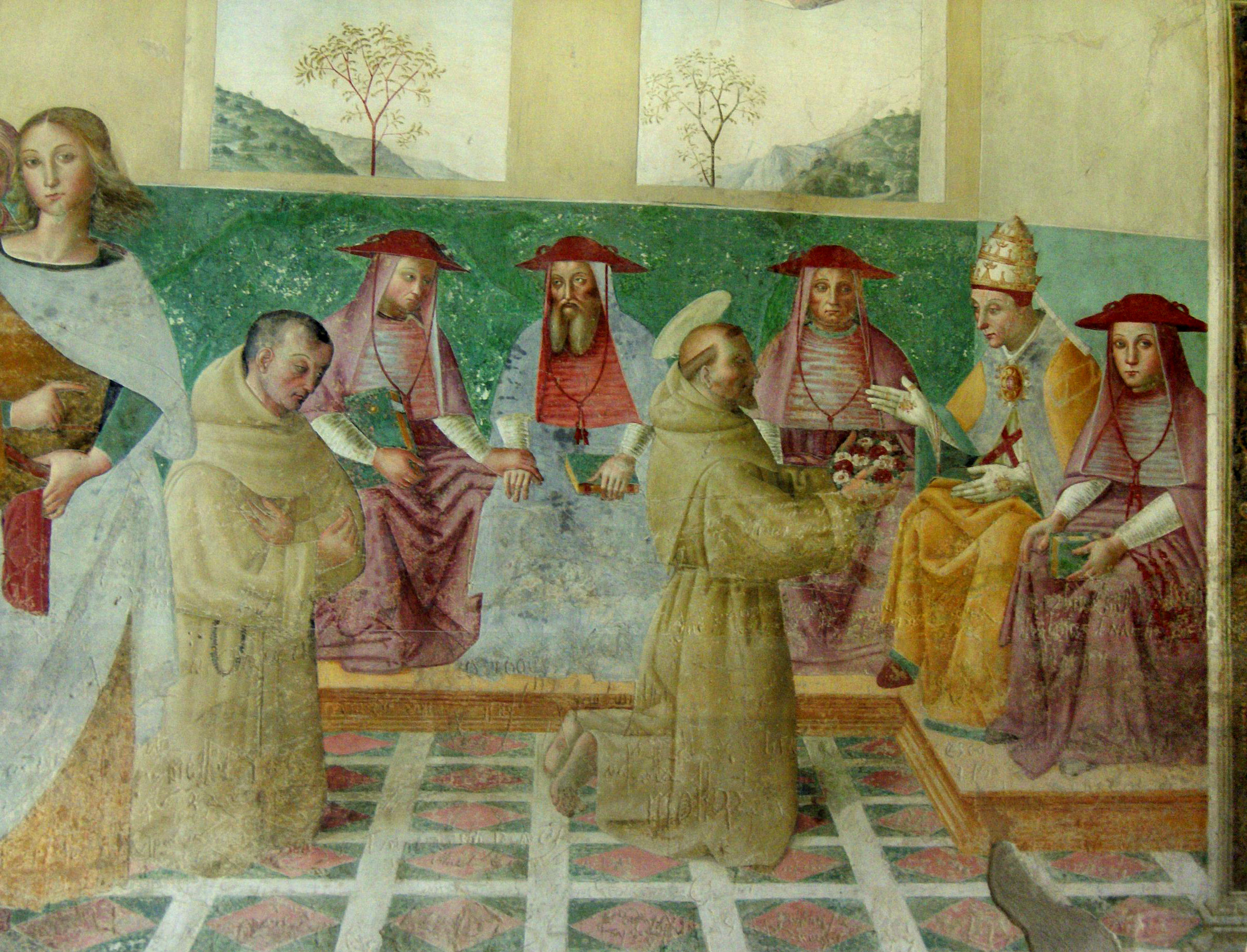 Concession of the Indulgence by Tiberio d'Assisi; Chapel of the Roses; Basilica of Santa Maria degli Angeli, Assisi, Italy